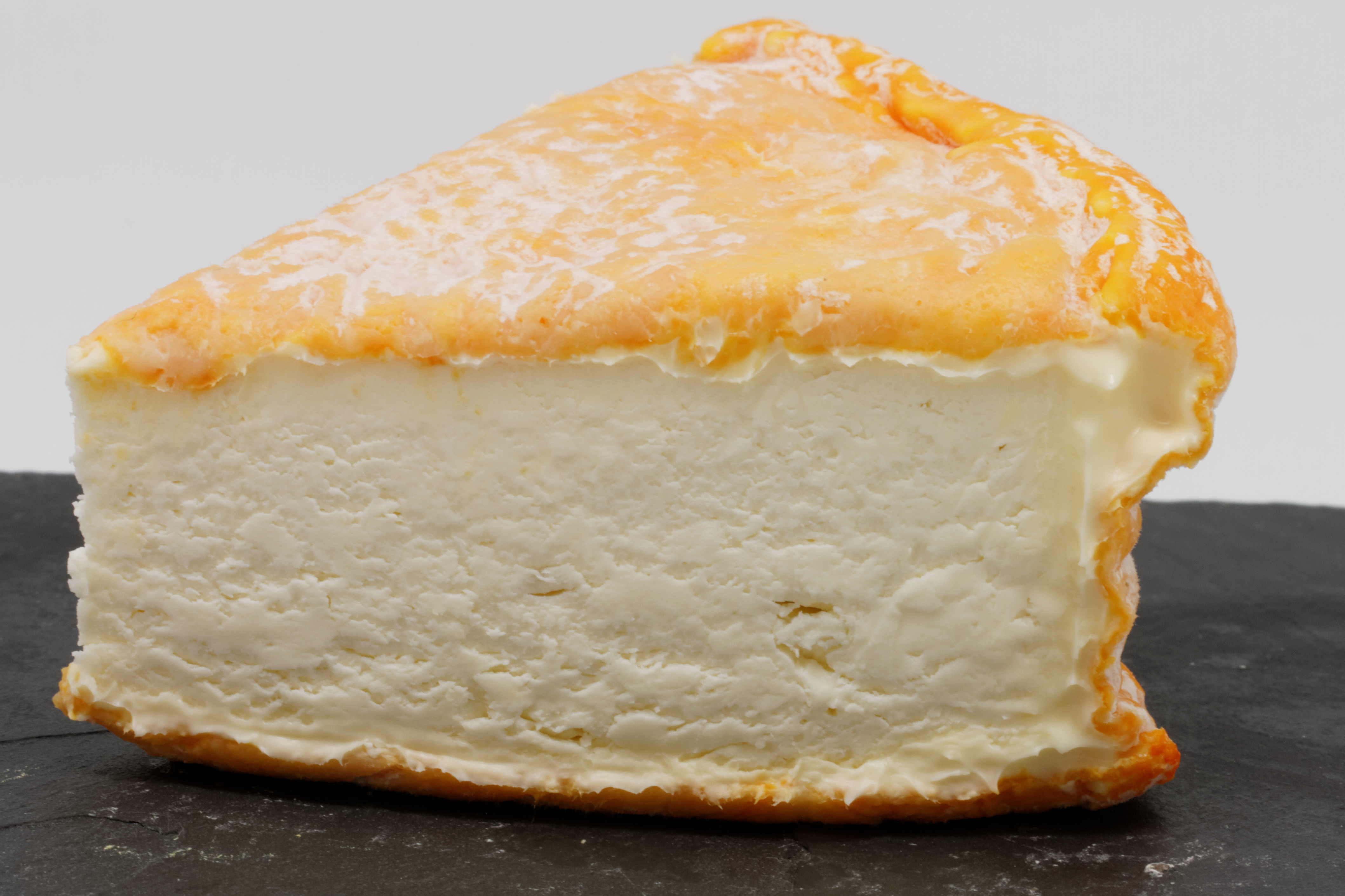 Langres